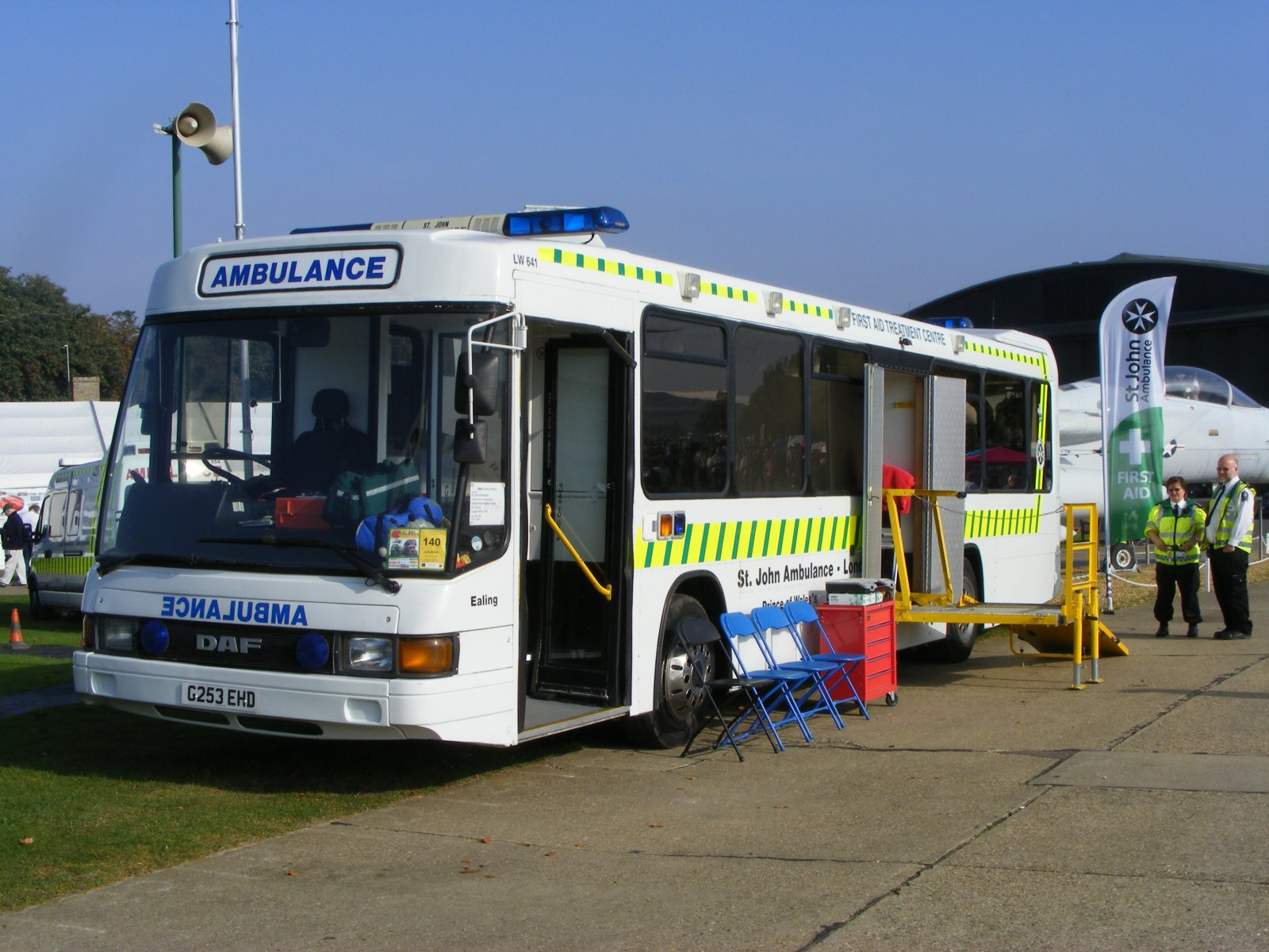 St John Ambulance multiple casualty ambulance and treatment centre